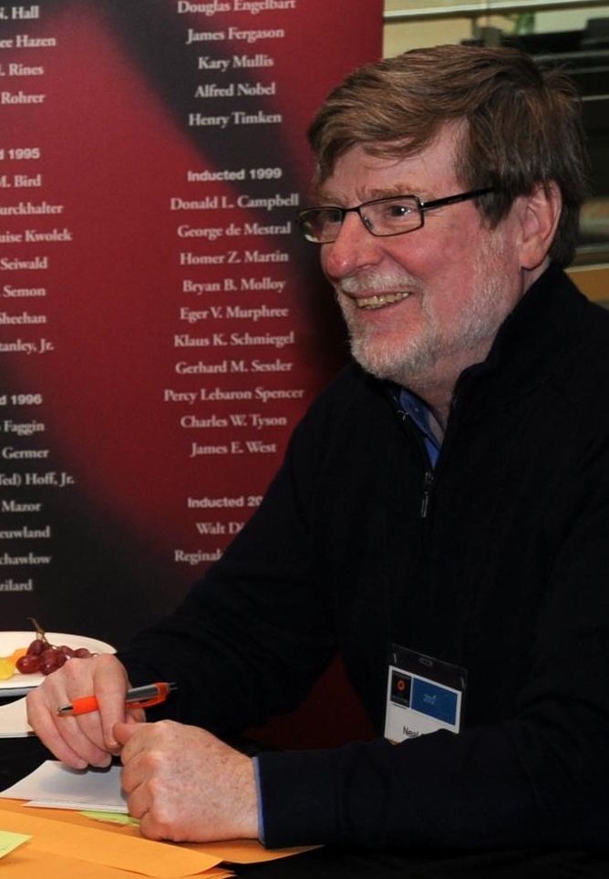 Neal Conan at the 2012 Collegiate Inventors Competition